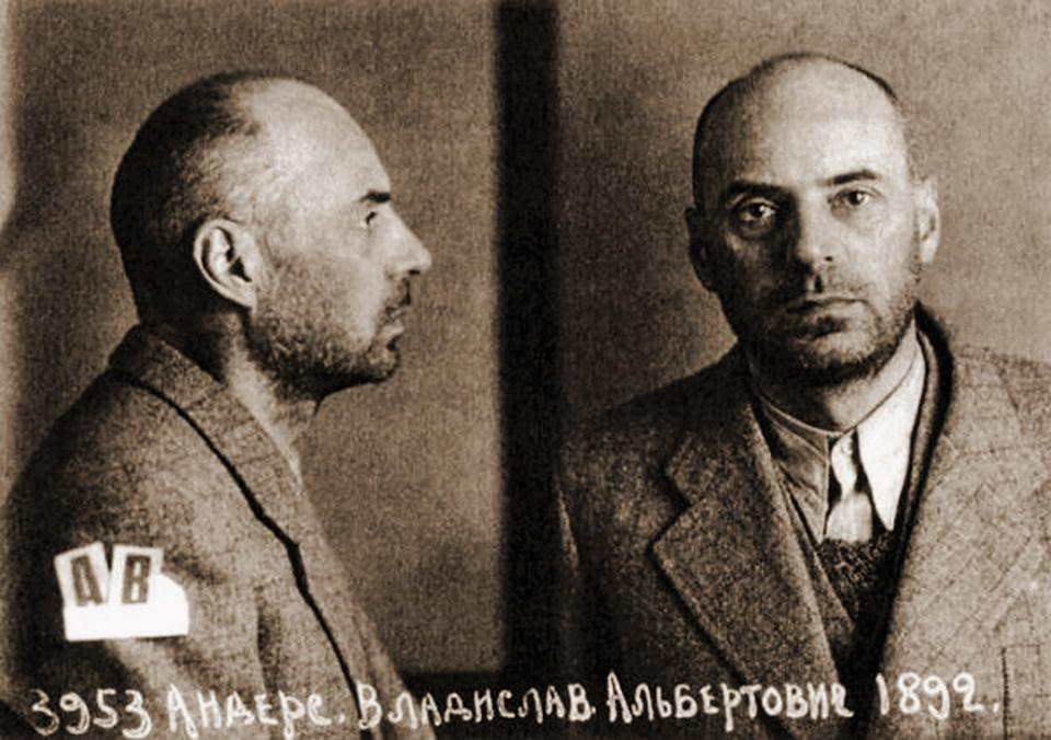 Władysław Anders (1892-1970) - General of the Polish Army and later in life a politician and prominent member of the Polish government-in-exile in London. Official mug shot made by Soviet NKVD after arrest 1940